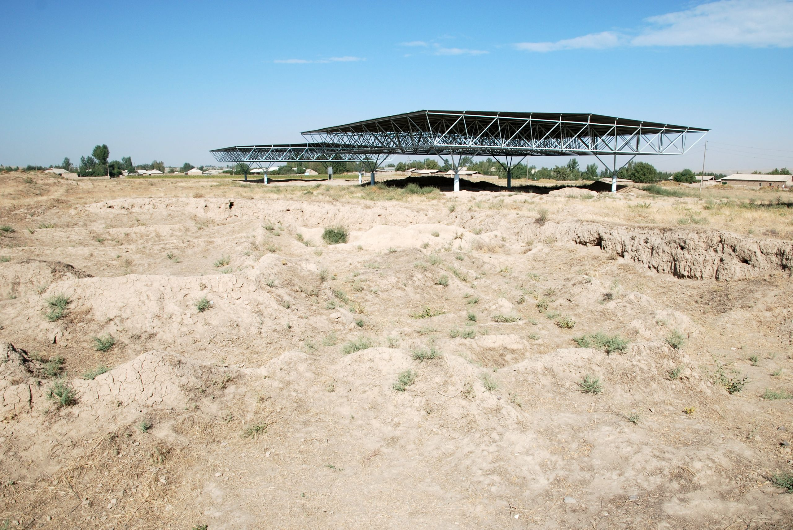 Sarazm, Sughd province, area XII